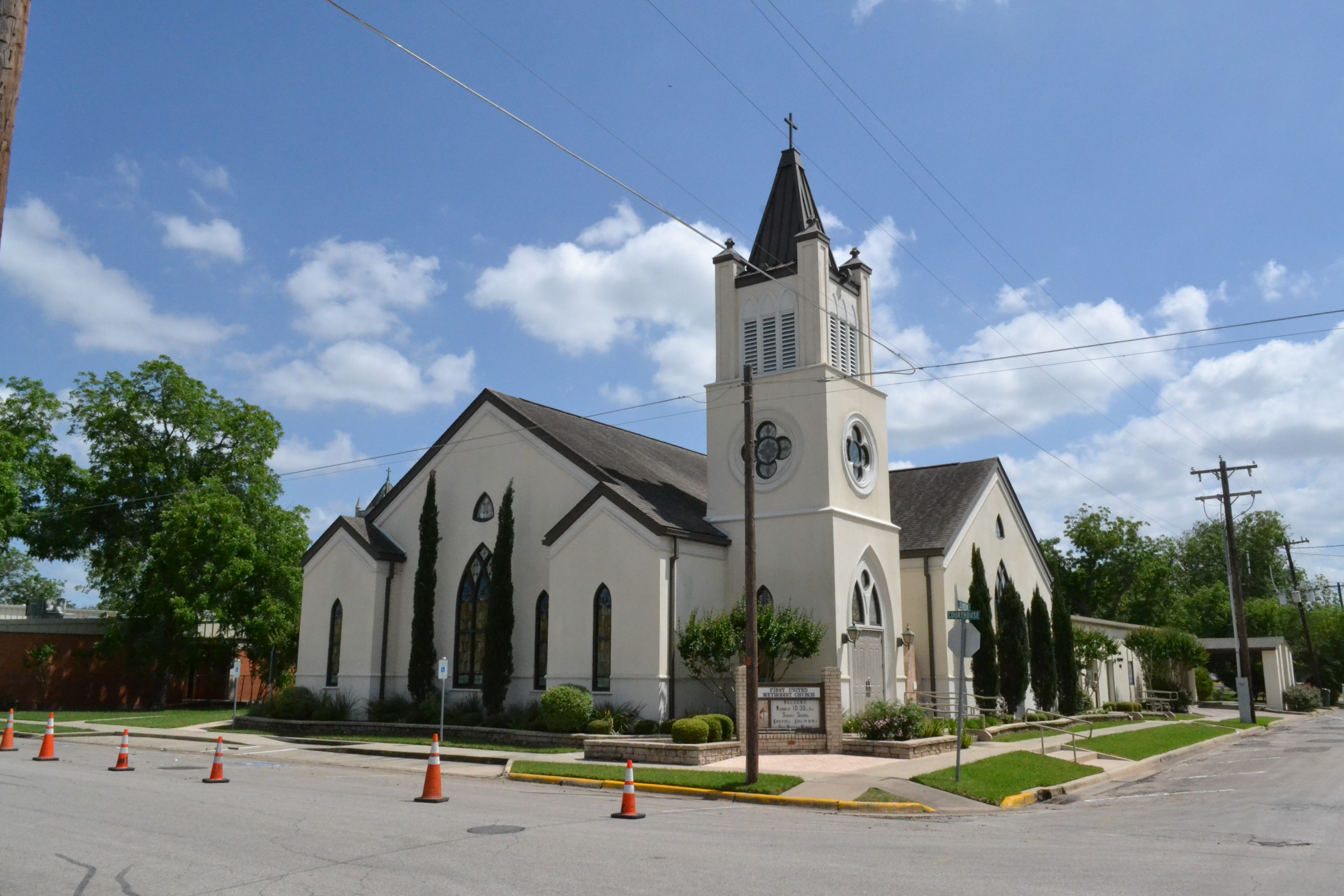 The First United Methodist Church in downtown Cuero, Texas. Listed on the National Register of Historic Places.